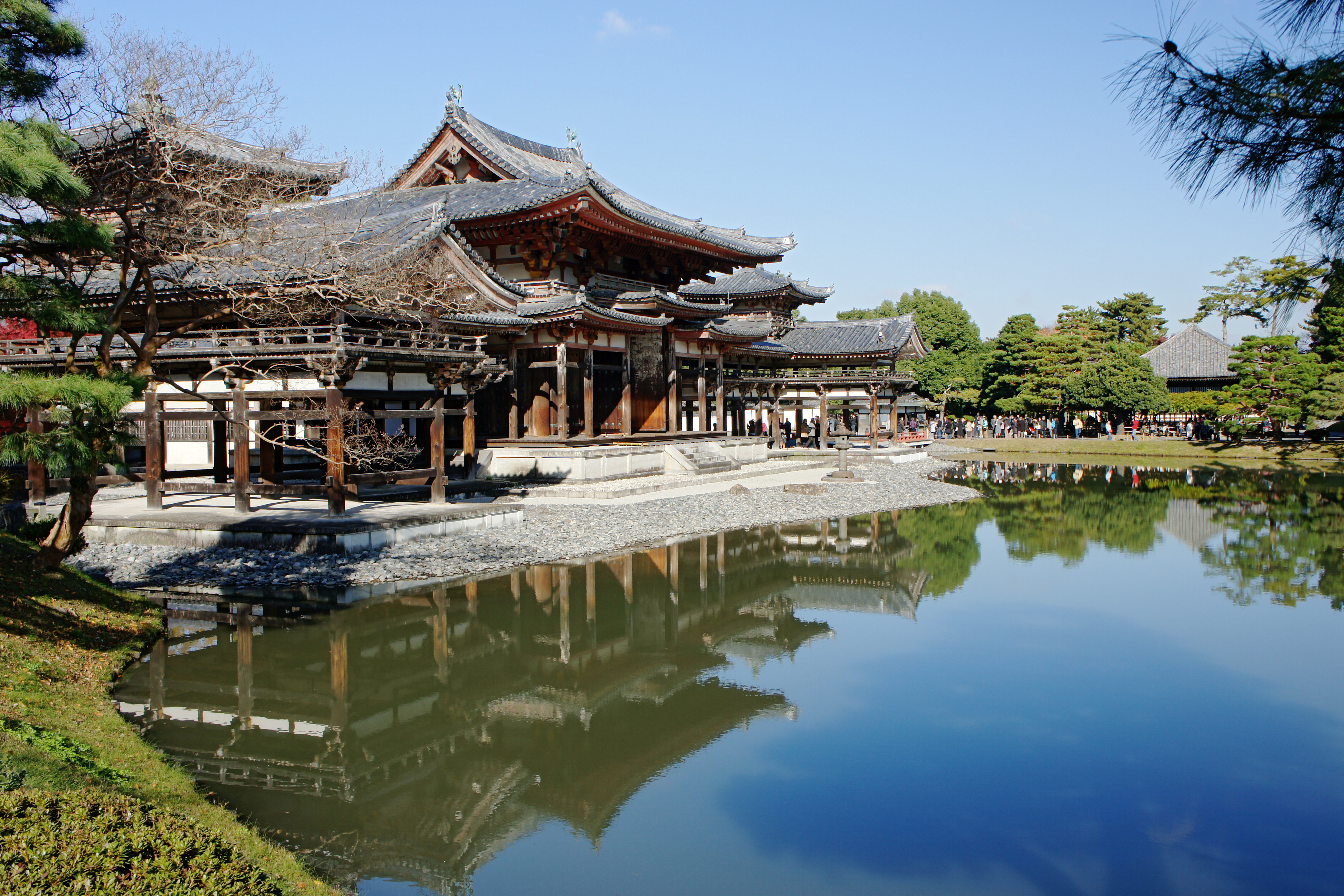 Byōdō-in's Phoenix Hall is a Japan's National Treasure in Uji, Kyoto prefecture, Japan. It was built in 1153. Byōdō-in was registered as part of the UNESCO World Heritage Site "Historic monuments of ancient Kyoto".